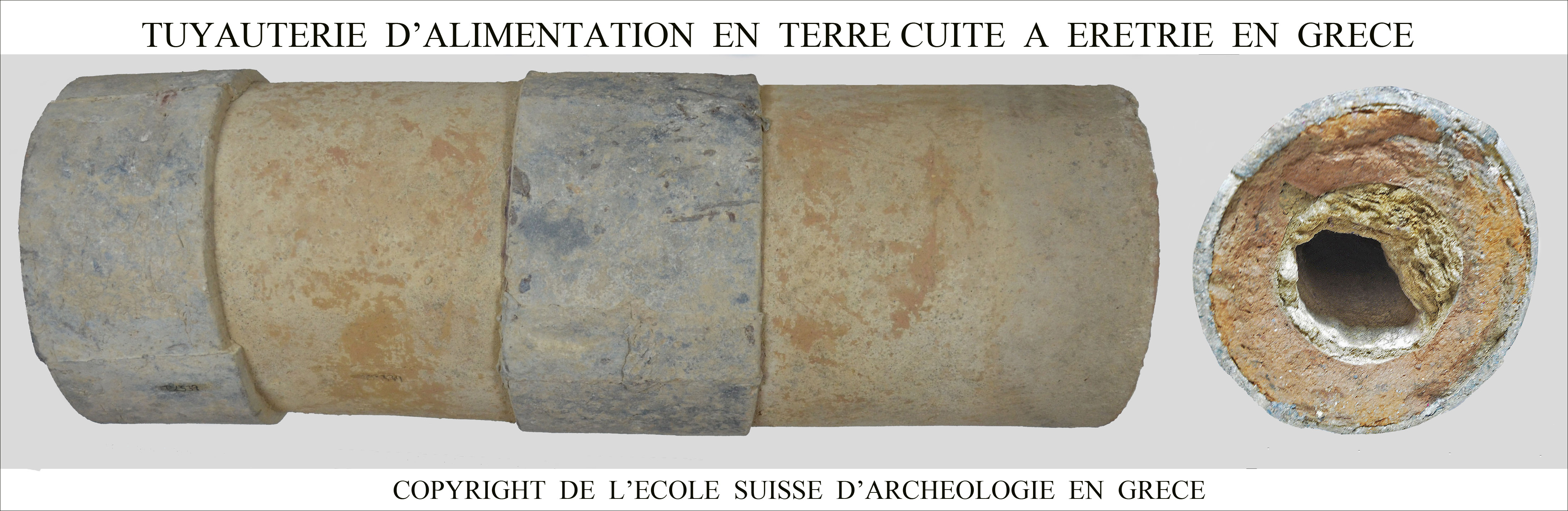 Eretria. Assembly of the piping with cross section.